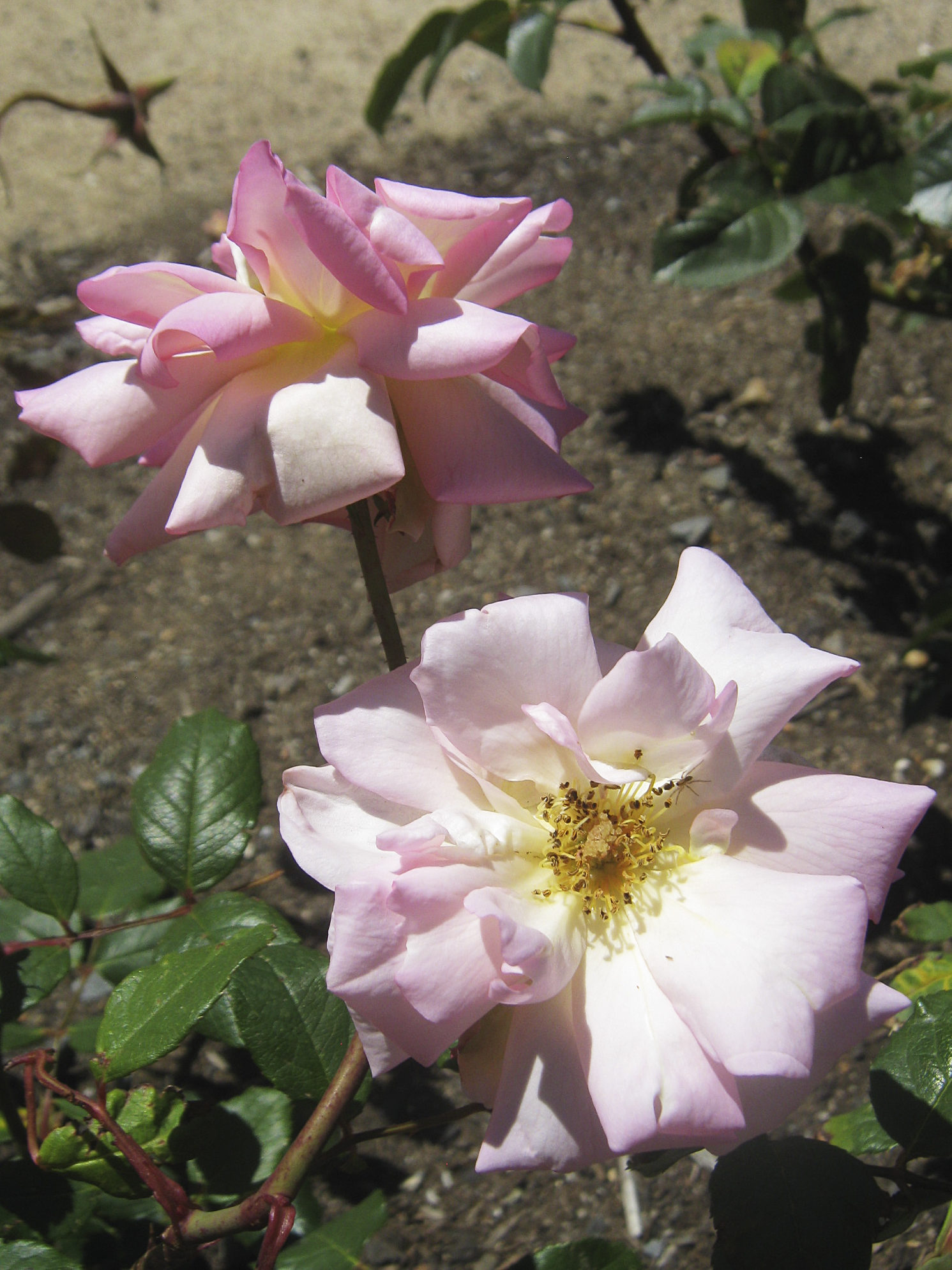 Rose 'Sunny South', Hybrid Tea by Clark 1918; Photographed at Nieuwesteeg Heritage Rose Garden, Maddingley Park, Bacchus Marsh, Victoria